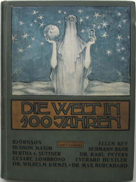 Front cover of original volume of book "Die Welt in 100 Jahren" ("The World In 100 Years"), first published 1910 in Berlin through "Verlagsanstalt Buntdruck", by Arthur Brehmer (editor; 1858-1923) and Ernst Lübbert (illustrations including front cover; 1879-1915).